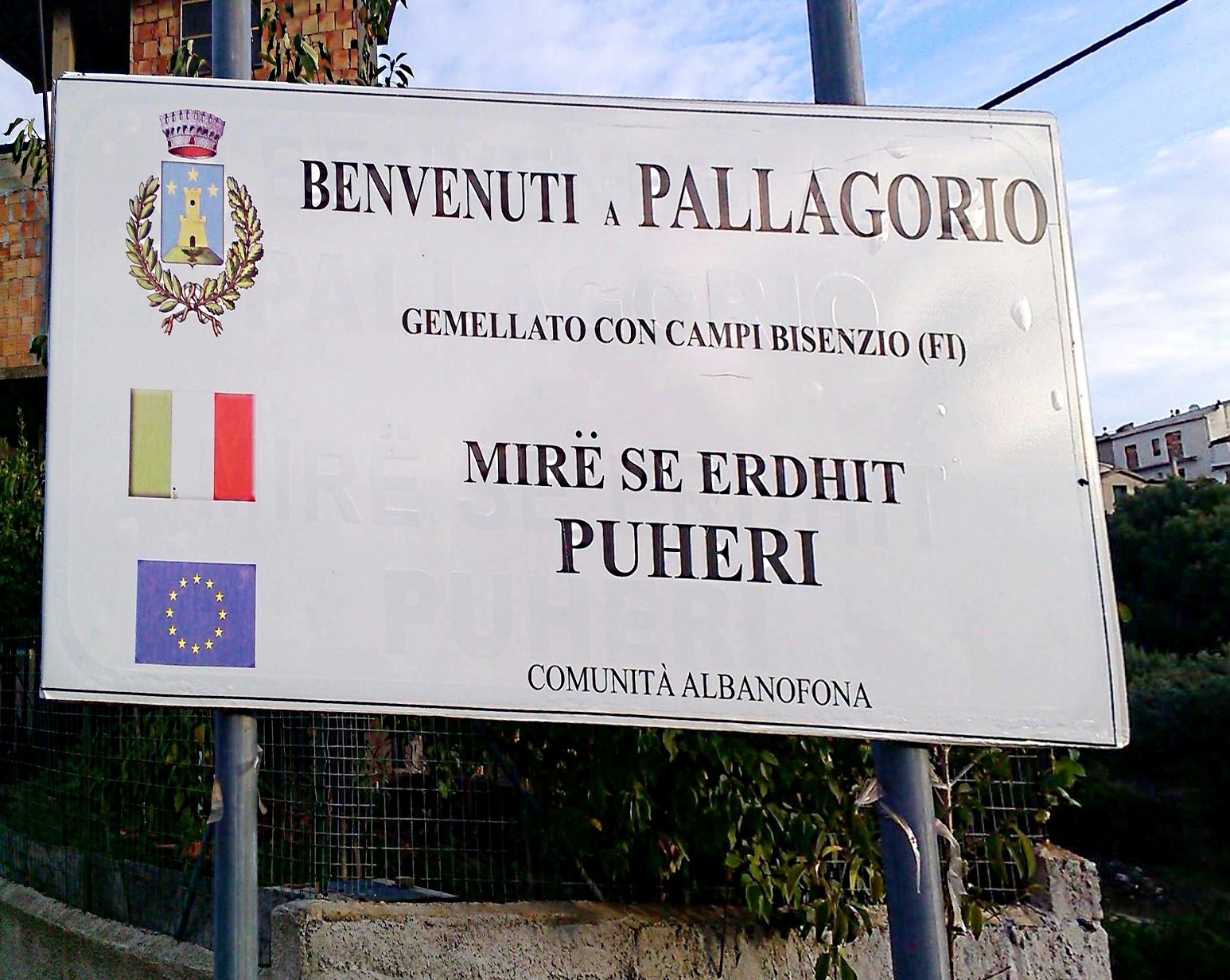 Bilingual welcome street sign in Italian and in Arbëresh